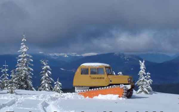 This is a photo of Allan Parson's Tucker 323 driving in 12' of snow.